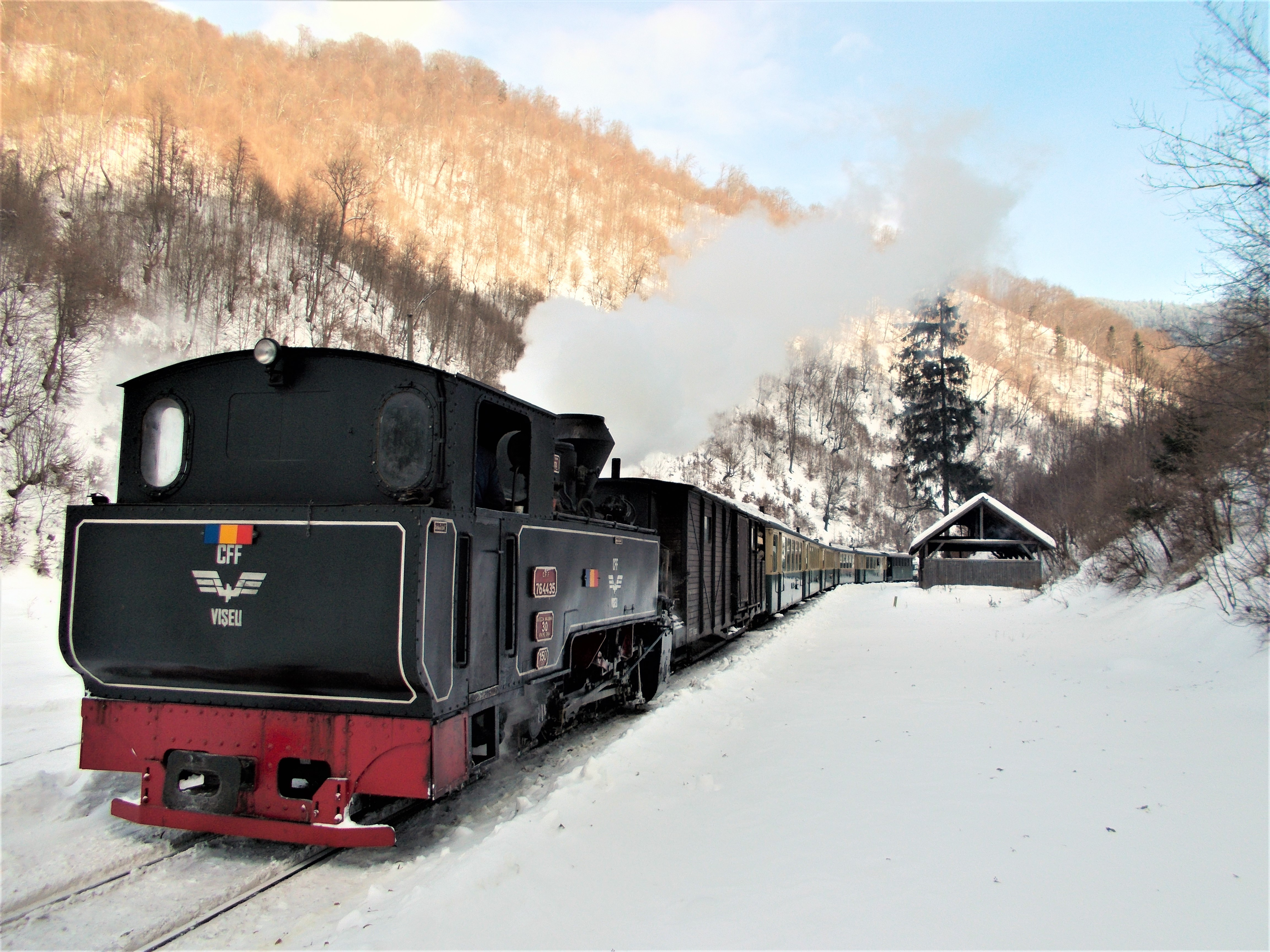 Vasar Valley Mocăniţa, a narrow gauge railway in Maramureș County, Romania (CFF Vișeu - Maramureș Mountains Natural Park)